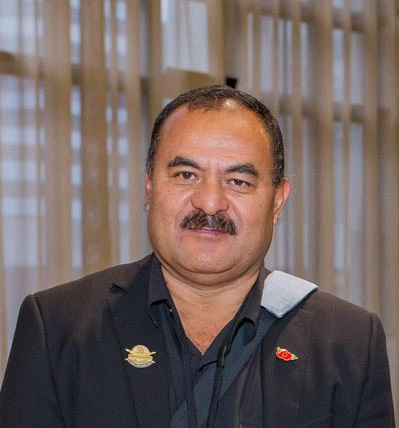 Peter Funaki, Niue MP, at the Pacific Parliamentary Forum in Wellington, NZ, in 2016